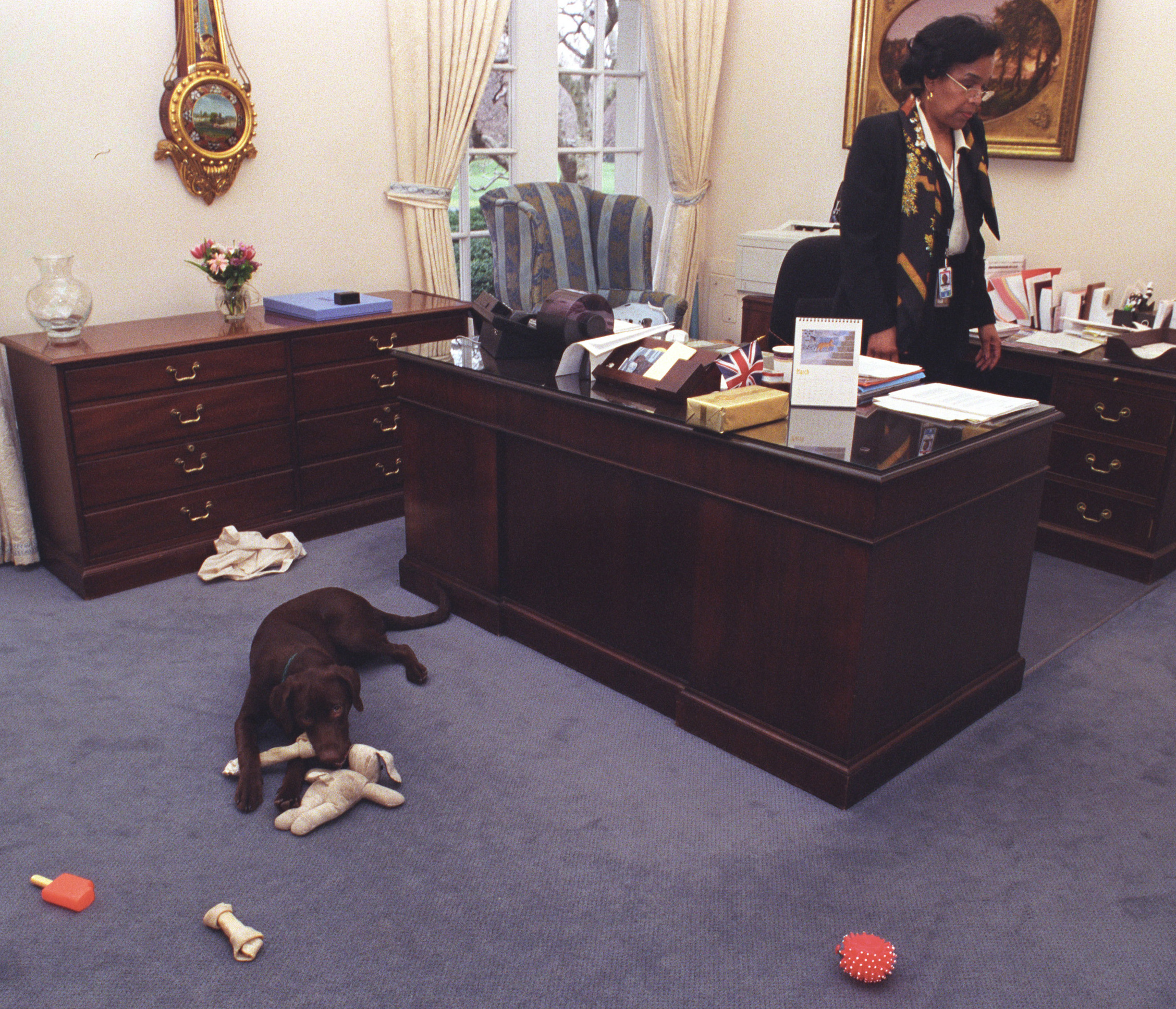 Title: Photograph of Buddy the Dog Playing with Toys in front of Betty Currie's Desk in the Outer Oval Office: 02/06/1998 Creator: President (1993-2001 : Clinton). White House Photograph Office. (01/20/1993 - 01/20/2001) Types of Archival Materials: Photographs and other Graphic Materials Contacts: William J. Clinton Library (NLWJC), 1200 President Clinton Avenue, Little Rock, AR 72201. Phone: 501-244-2877; Fax: 501-244-2881; Production Dates: 02/06/1998 From: Series: Photographs Relating to the Clinton Administration, compiled 01/20/1993 - 01/20/2001 Collection WJC-WHPO: Photographs of the White House Photograph Office (Clinton Administration), 01/20/1993 - 01/20/2001 Persistent URL: Access Restriction(s): Unrestricted Use Restriction(s): Unrestricted